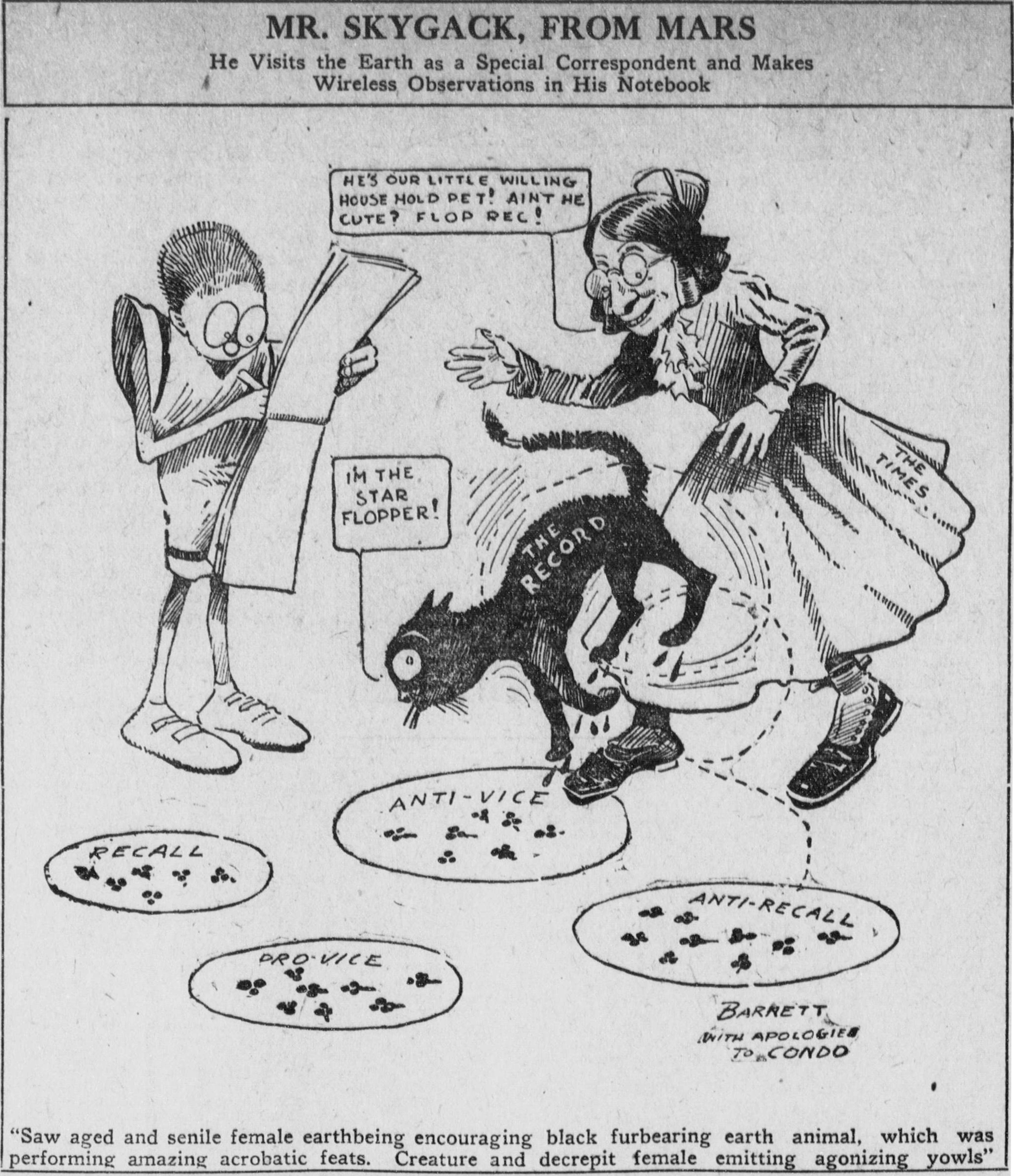 Editorial cartoon from the Los Angeles Herald, using A.D. Condo's character "Mr. Skygack, from Mars" to attack other Los Angeles newspapers